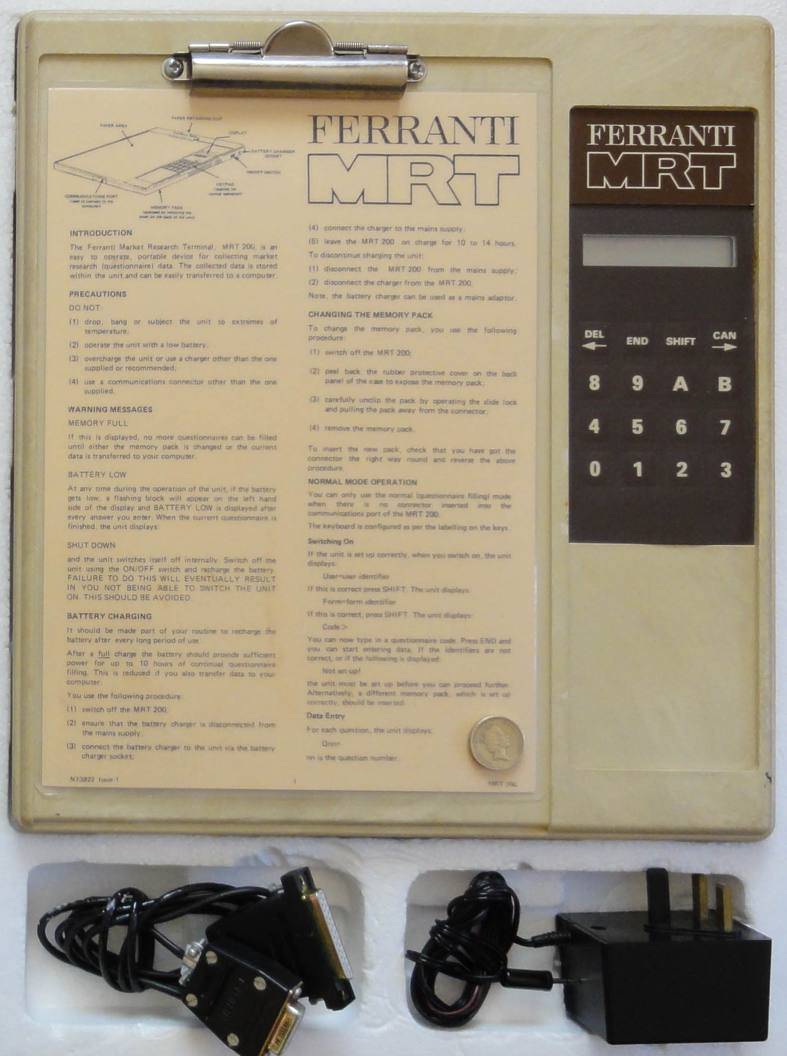 Photograph of the Ferranti MRT-100, a portable computer taking the form on an electronic clipboard (its of historical significance because it was the first of its kind in the world)